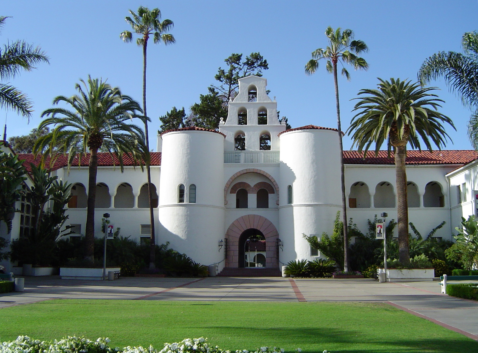 Historic Mission Revival and Spanish Colonial Revival style architecture on the San Diego State University campus. On the National Register of Historic Places in San Diego County, California. (the bell tower behind the building has been taken out of the photo)